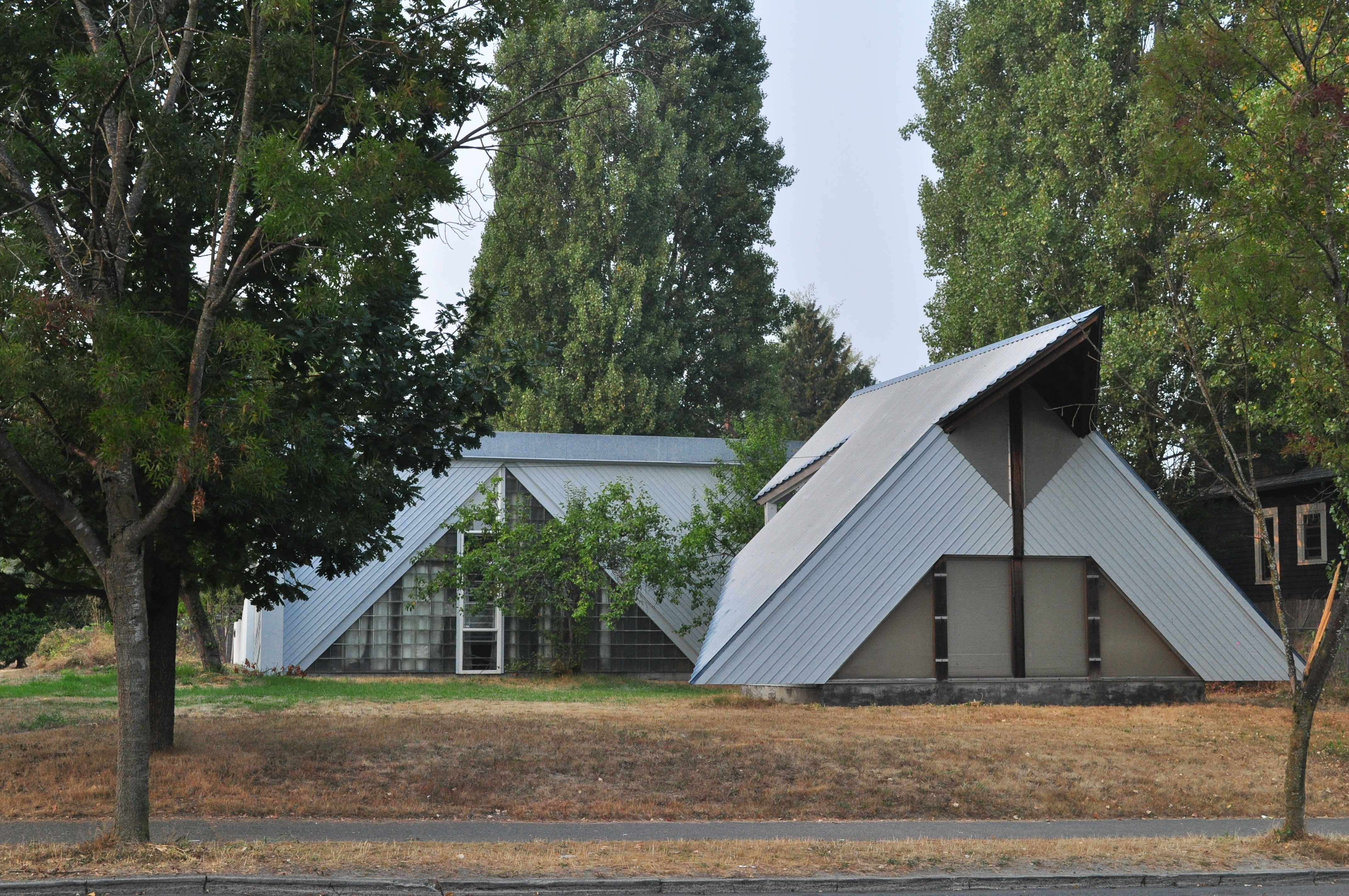 In the 1970s, the young Frank Chopp (later a prominent Washington State politician) and his father built two modern "urban cabins" at 2402 E Yesler Way, Seattle, Washington.